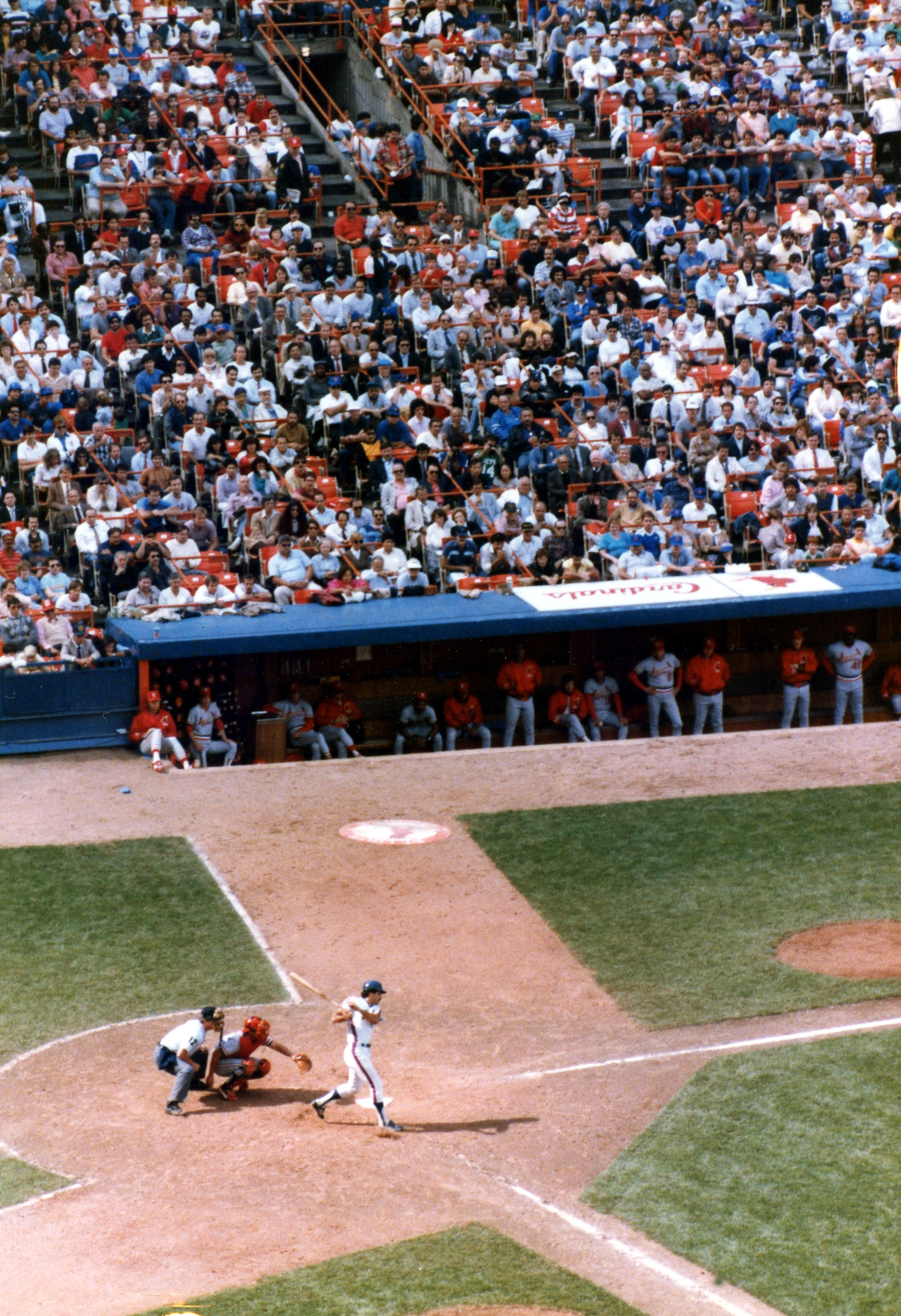 Shea Stadium, 1985